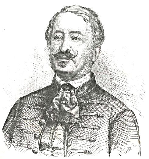 Portrait of László Szőgyény-Marich, senior